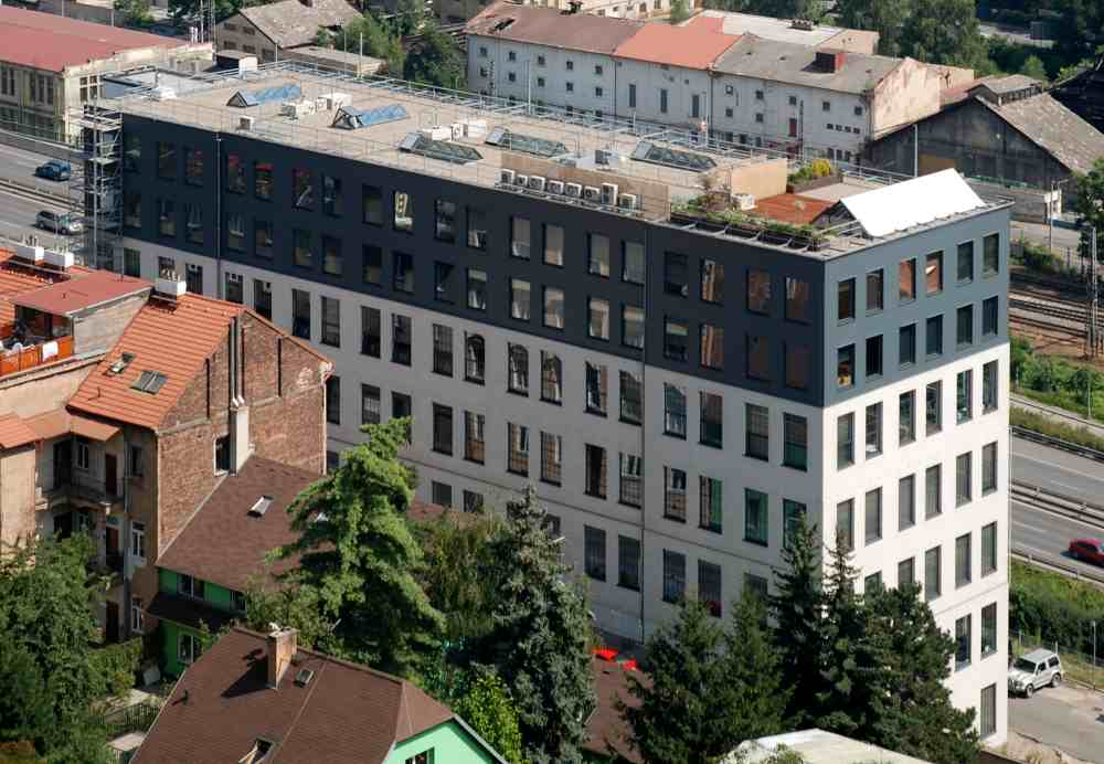 Old factory buildings in Prague-Smíchov, which were converted into lofts.